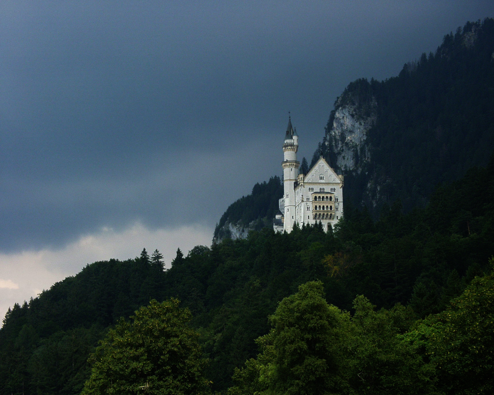 Neuschwanstein Castle, Bavaria, Germany; before the thunderstorm